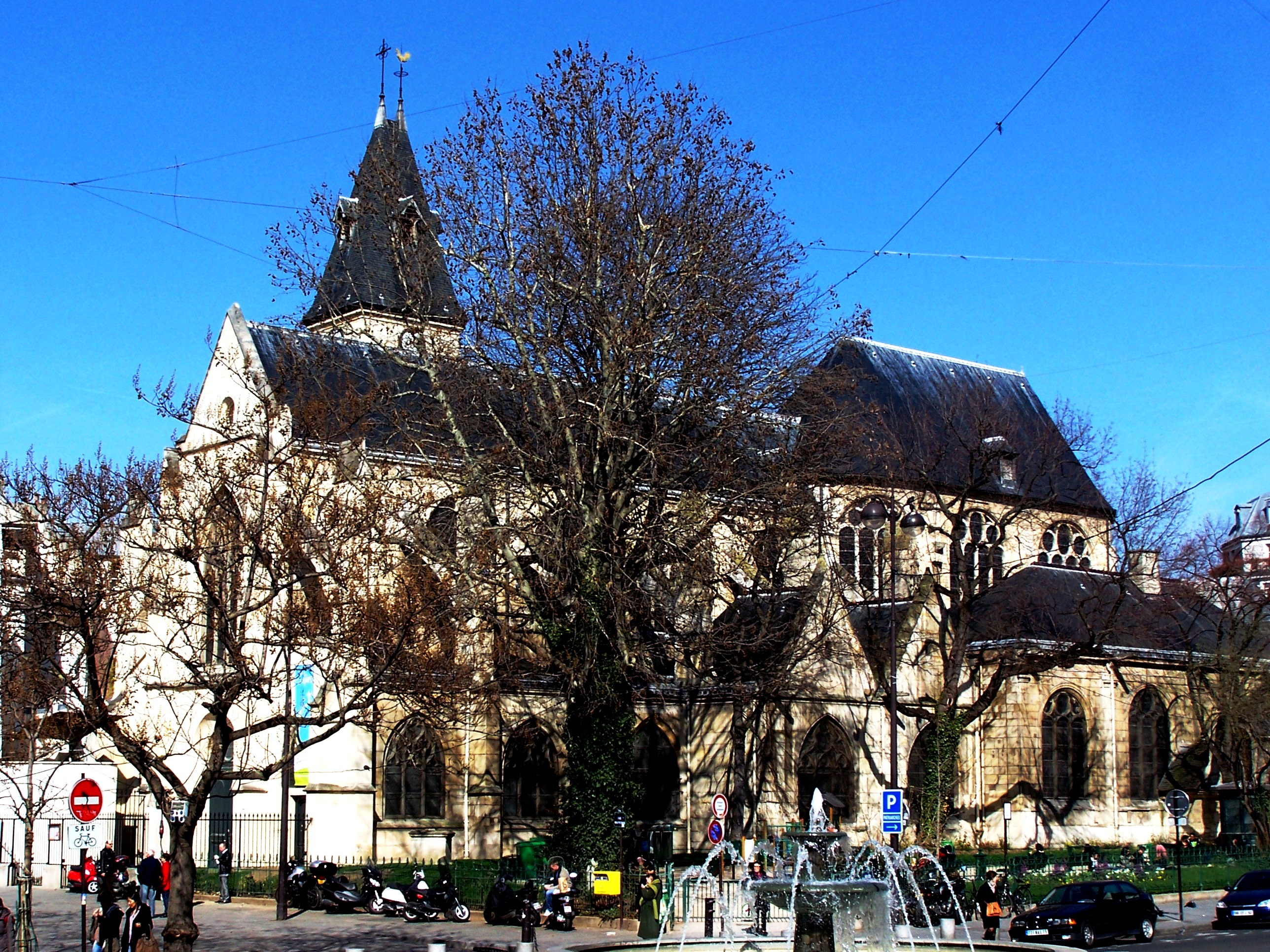 The church Saint-Médard, at the corner rue Censier/rue Mouffetard in Paris